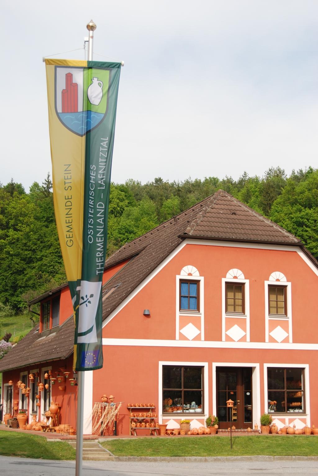 Stein near Fürstenfeld